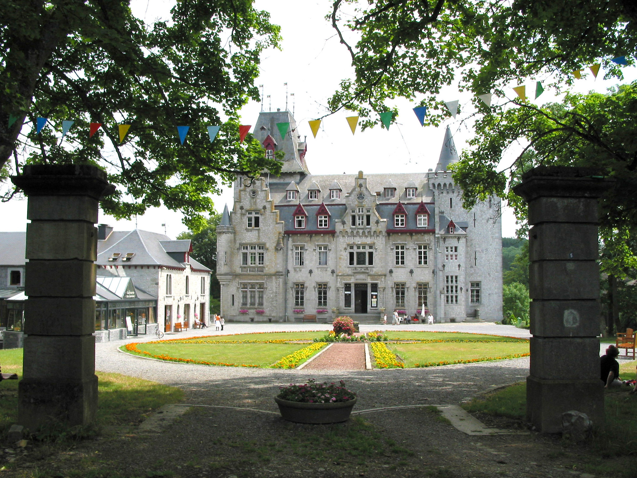 Septon (Belgium), the castle of Petite-Somme.